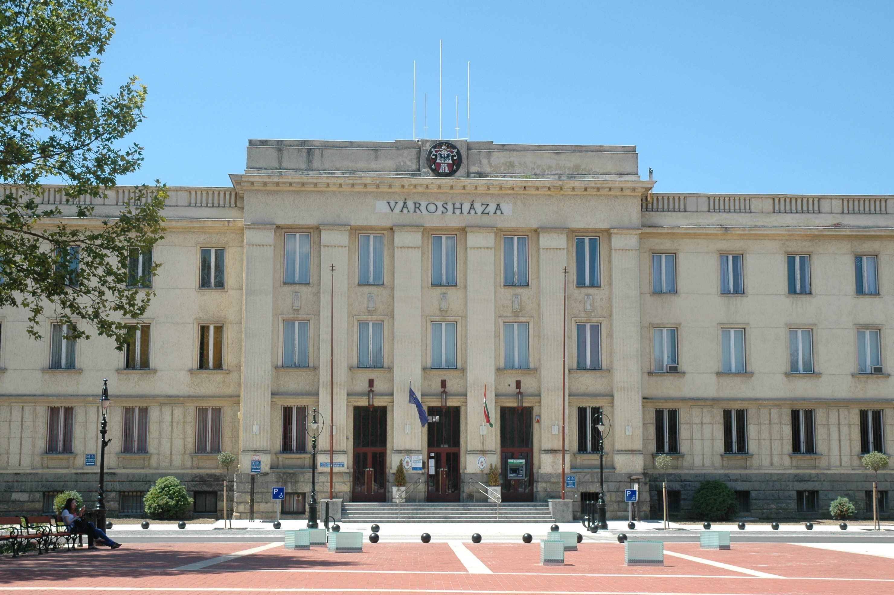 City Hall in Nagykanizsa (Zala County, Hungary)